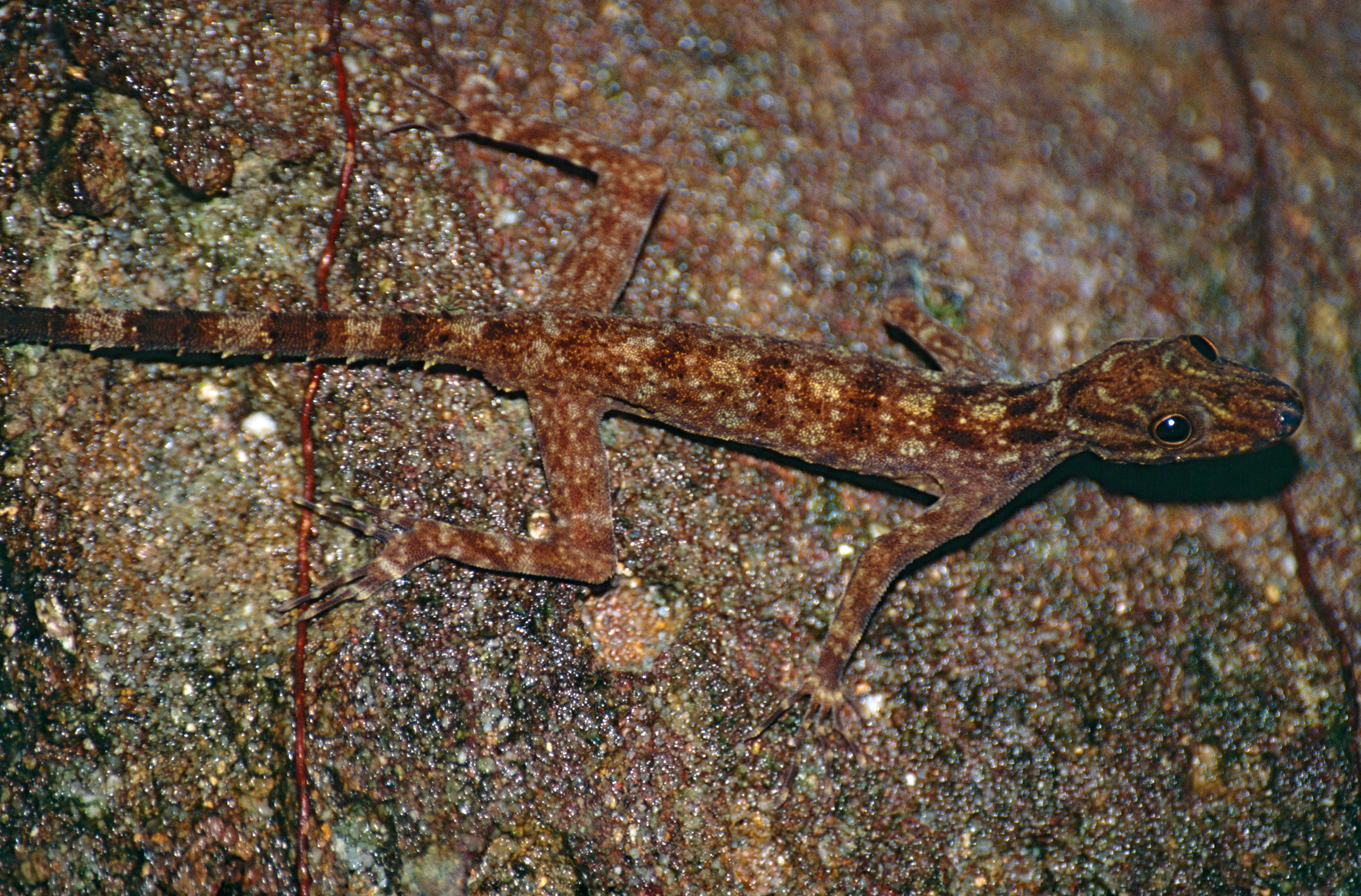 Bako NP, Sarawak, MALAYSIA Scanned slide from 2001